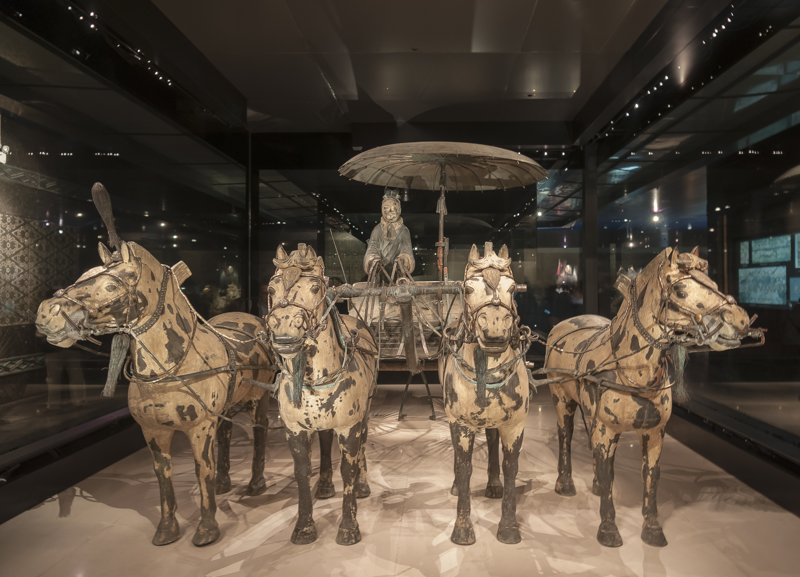 Xi'an, China: War chariots of the Terracotta Army in the exhibition hall of the Museum of the Terracotta Army